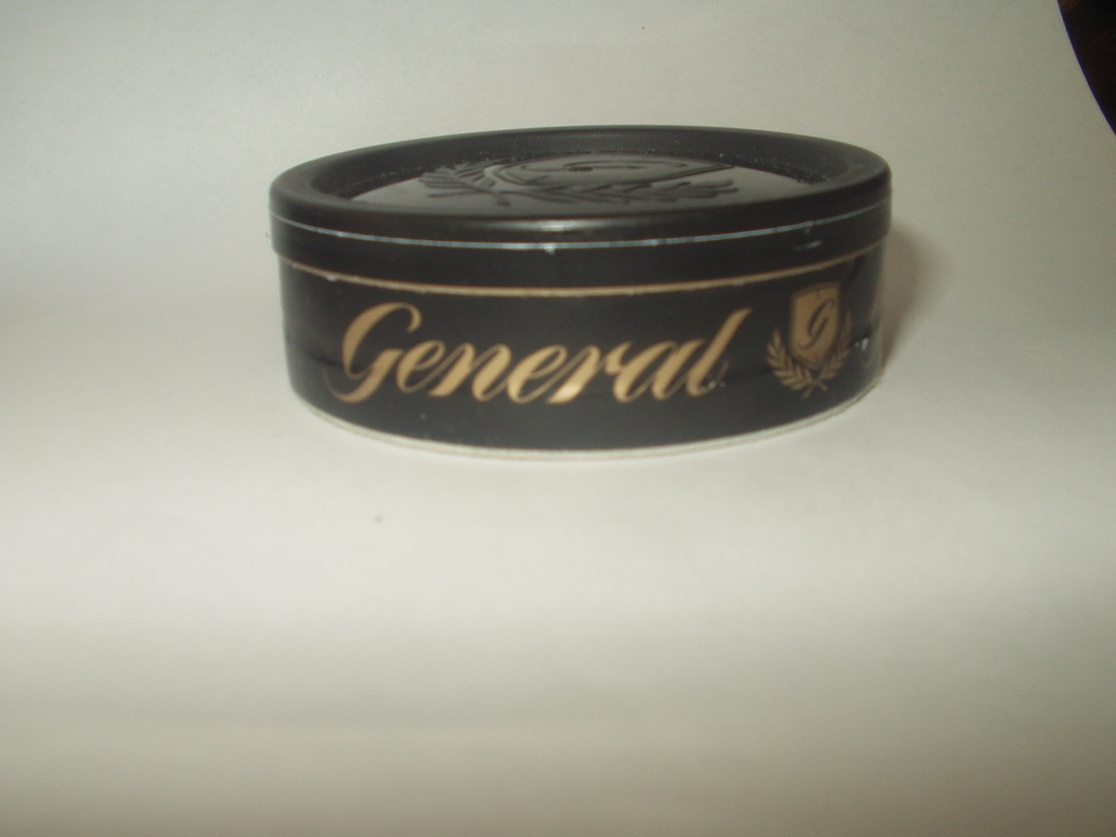 General snus